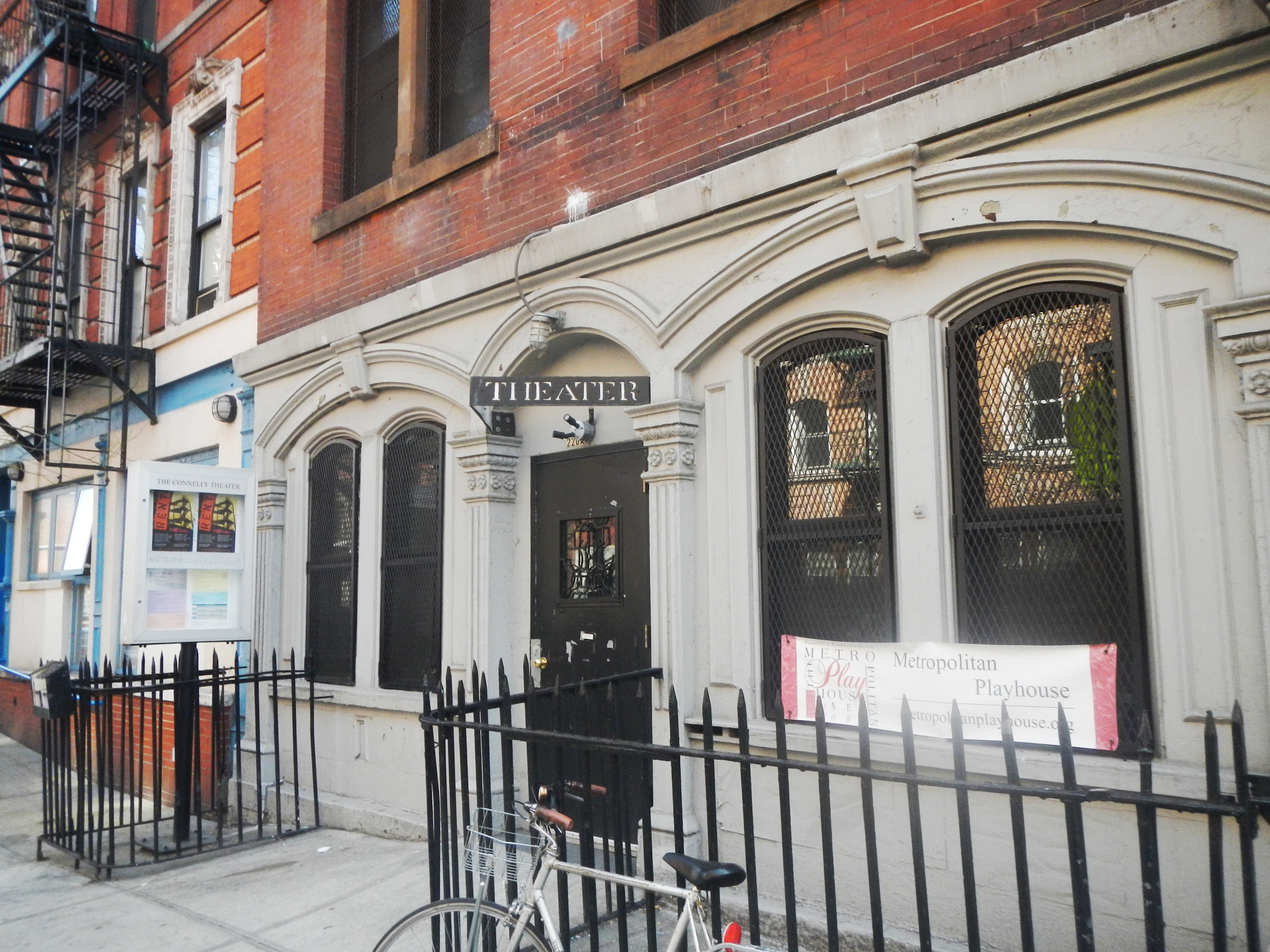 Looking south at theater on a sunny day.